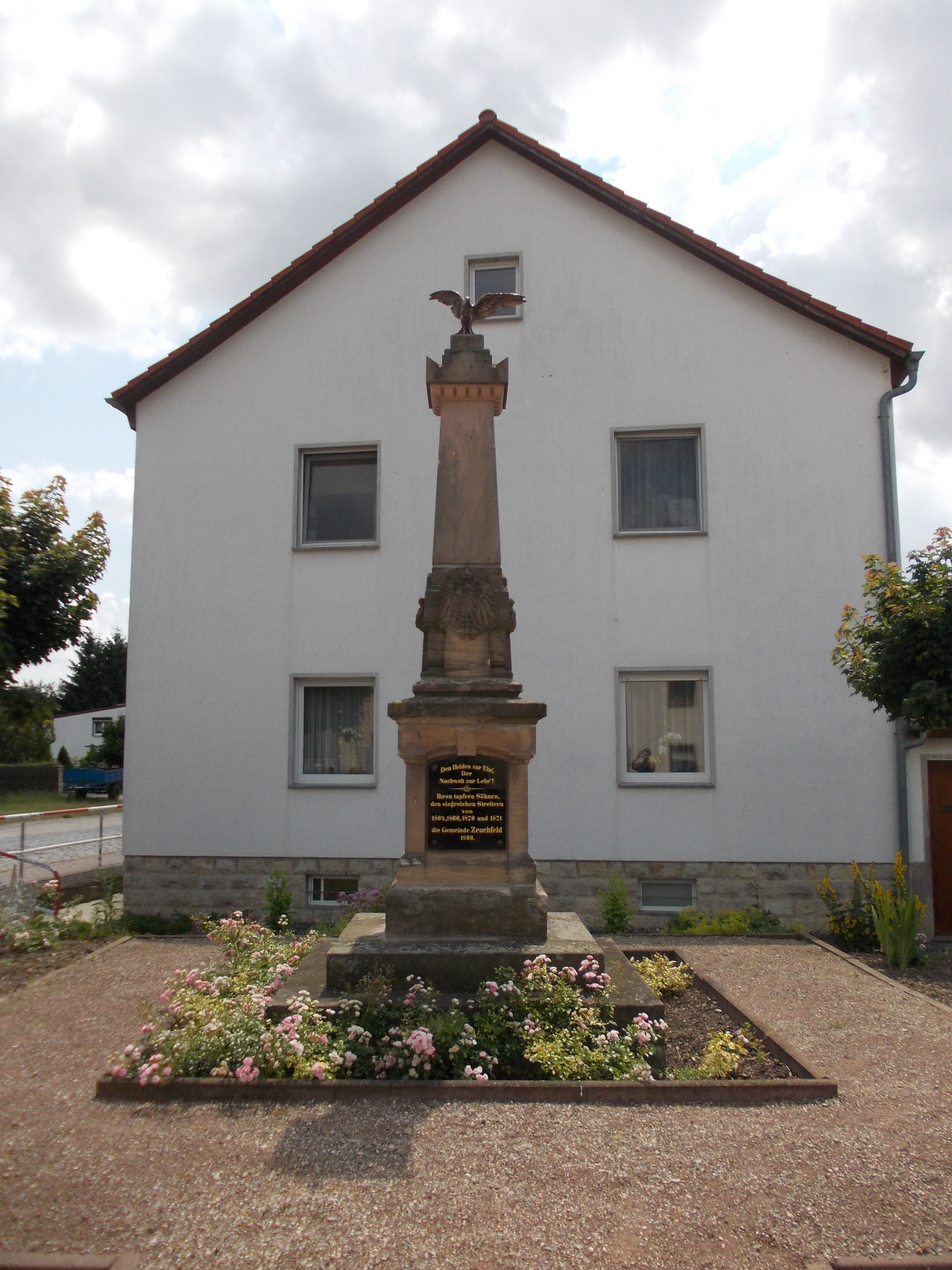 Memorial to the wars of 1864, 1866, and 1870/71 in Zeuchfeld (Freyburg/Unstrut, district: Burgenlandkreis, Saxony-Anhalt)